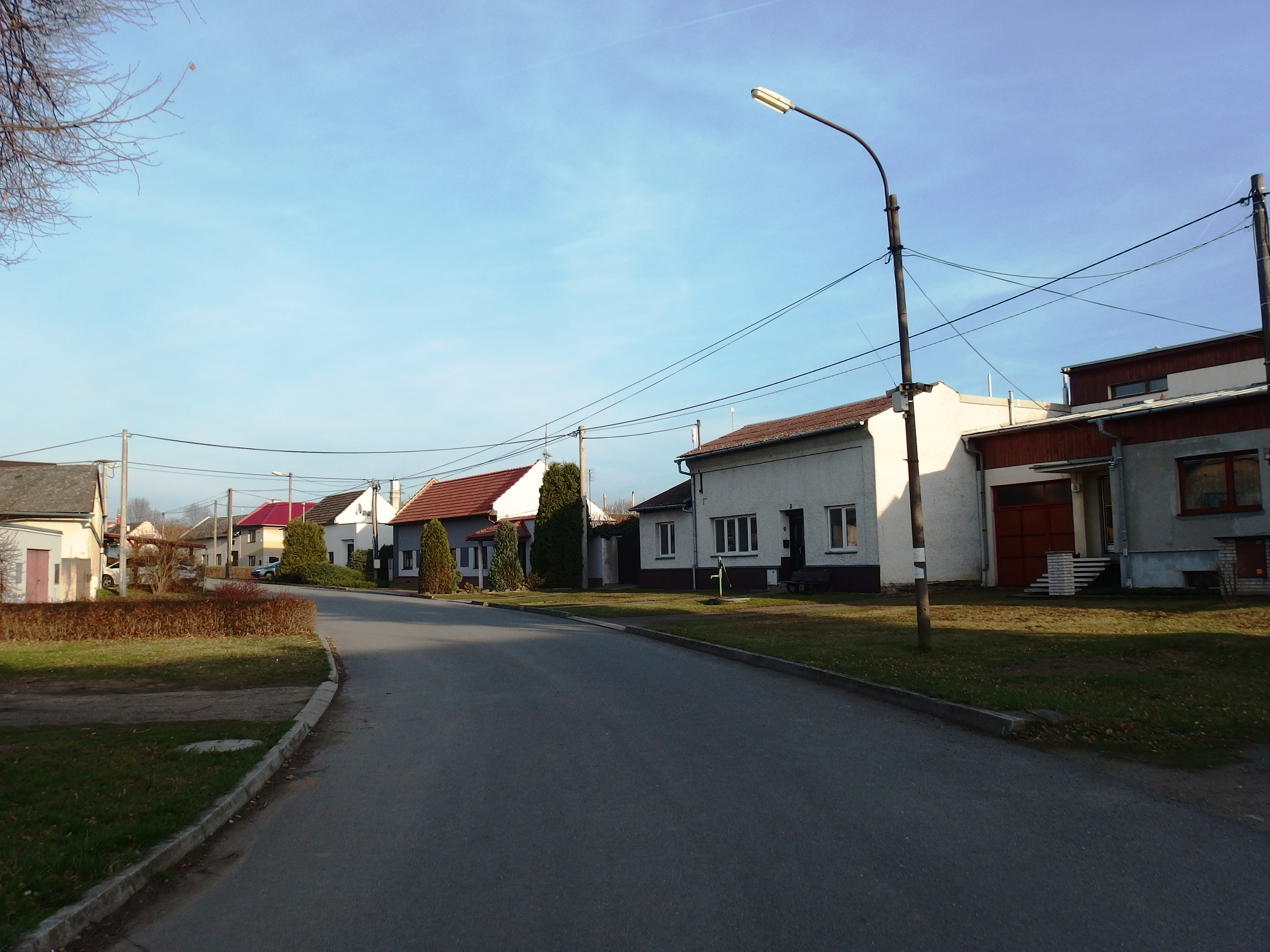 Lobodice, Přerov District, Czech Republic, part Chrbov.